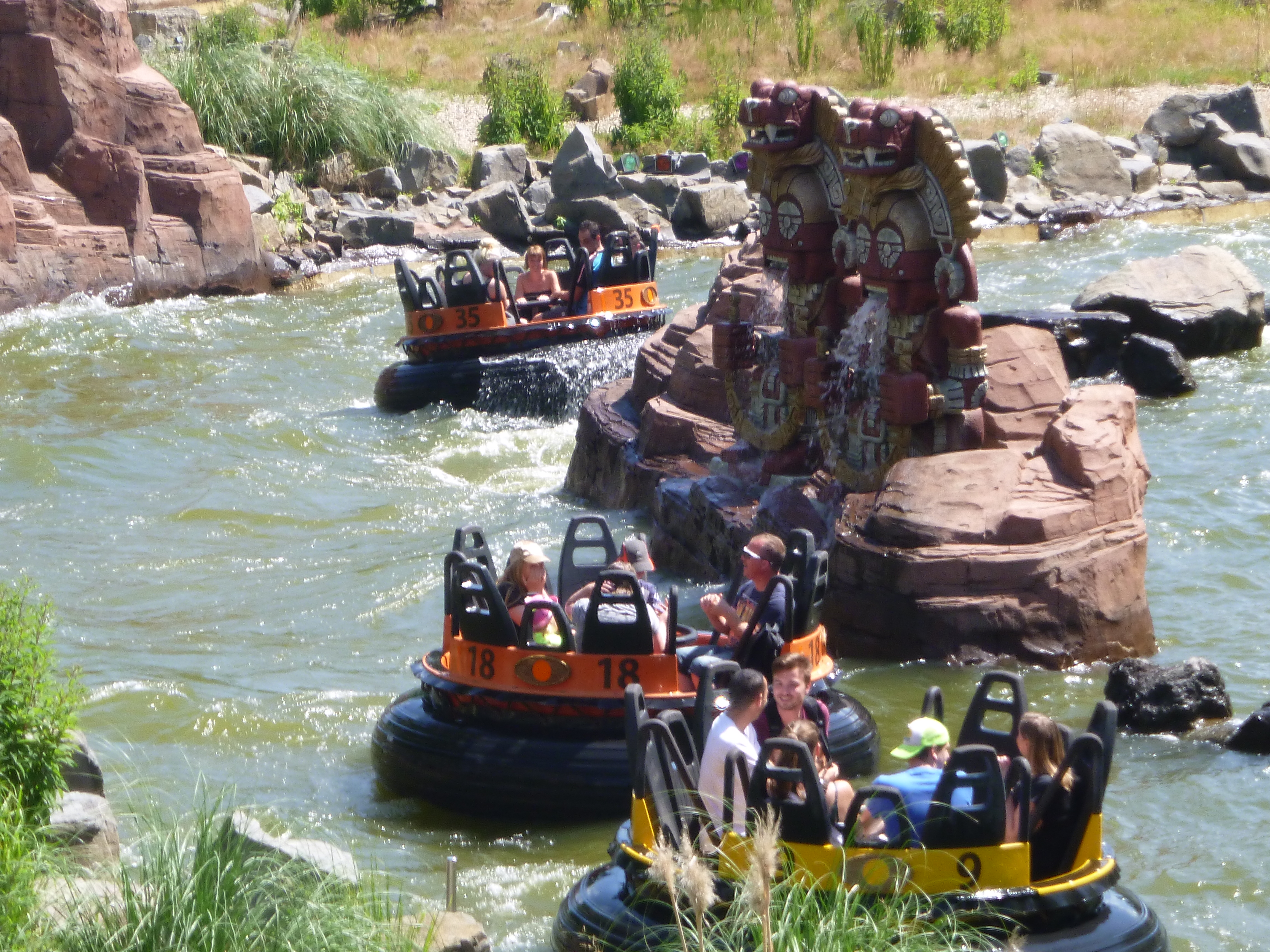 Efteling Piraña statues